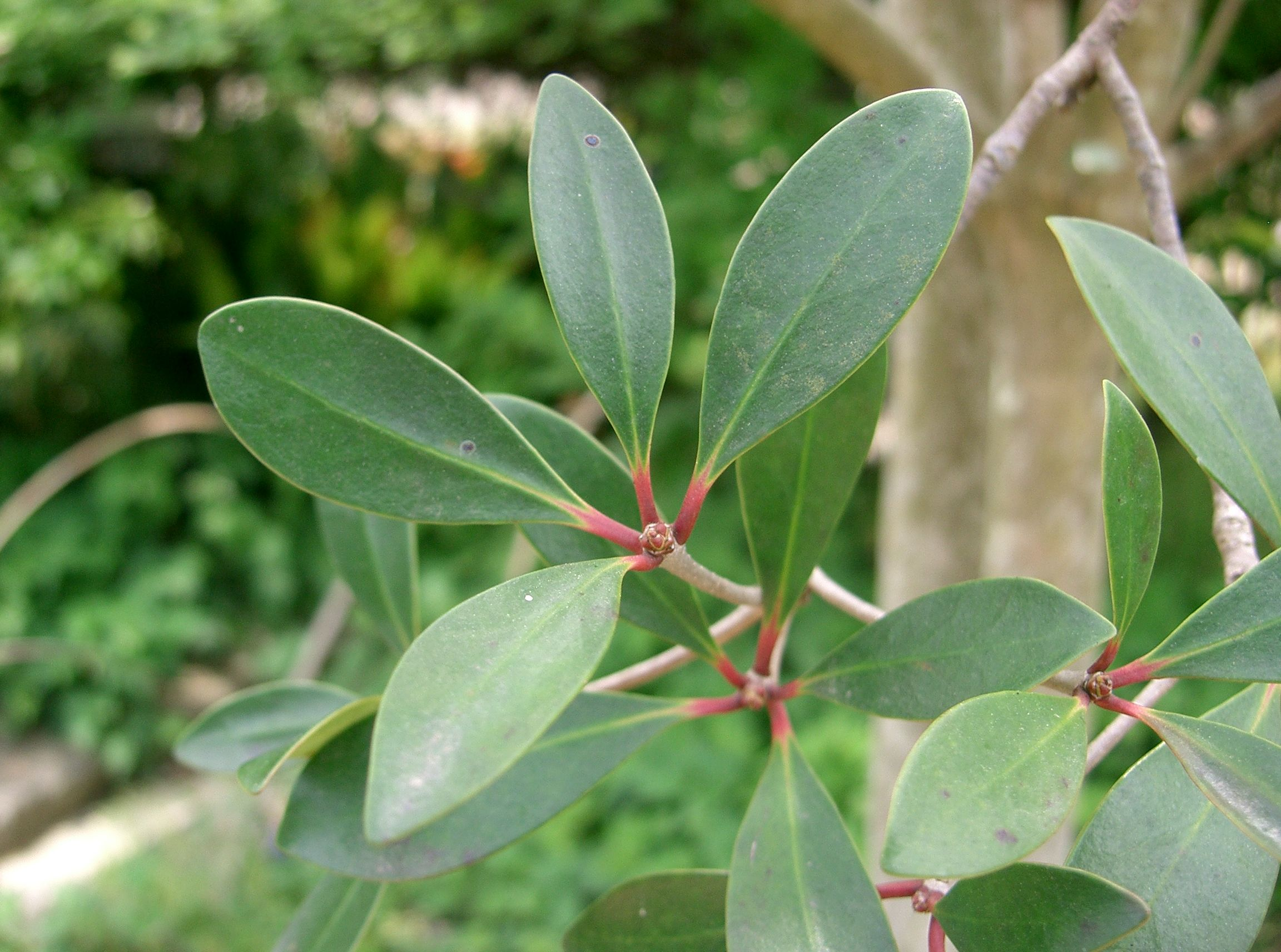 Ternstroemia gymnanthera Scientific name Ternstroemia gymnanthera (synonym:T. japonica )